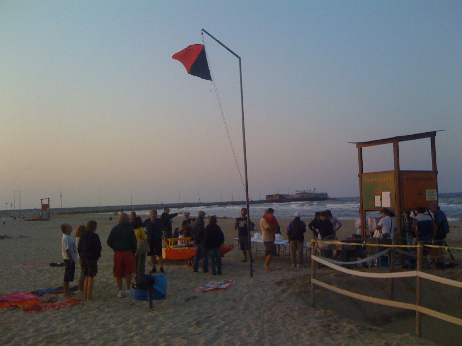 Meeting of anarchist, rimini, italy